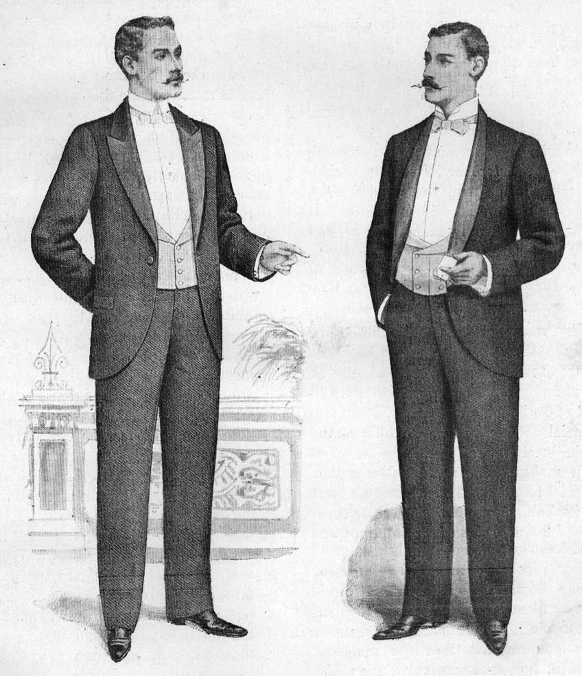 Illustration of peaked lapel and shawl collar dinner jackets from 1898 English tailoring publication.